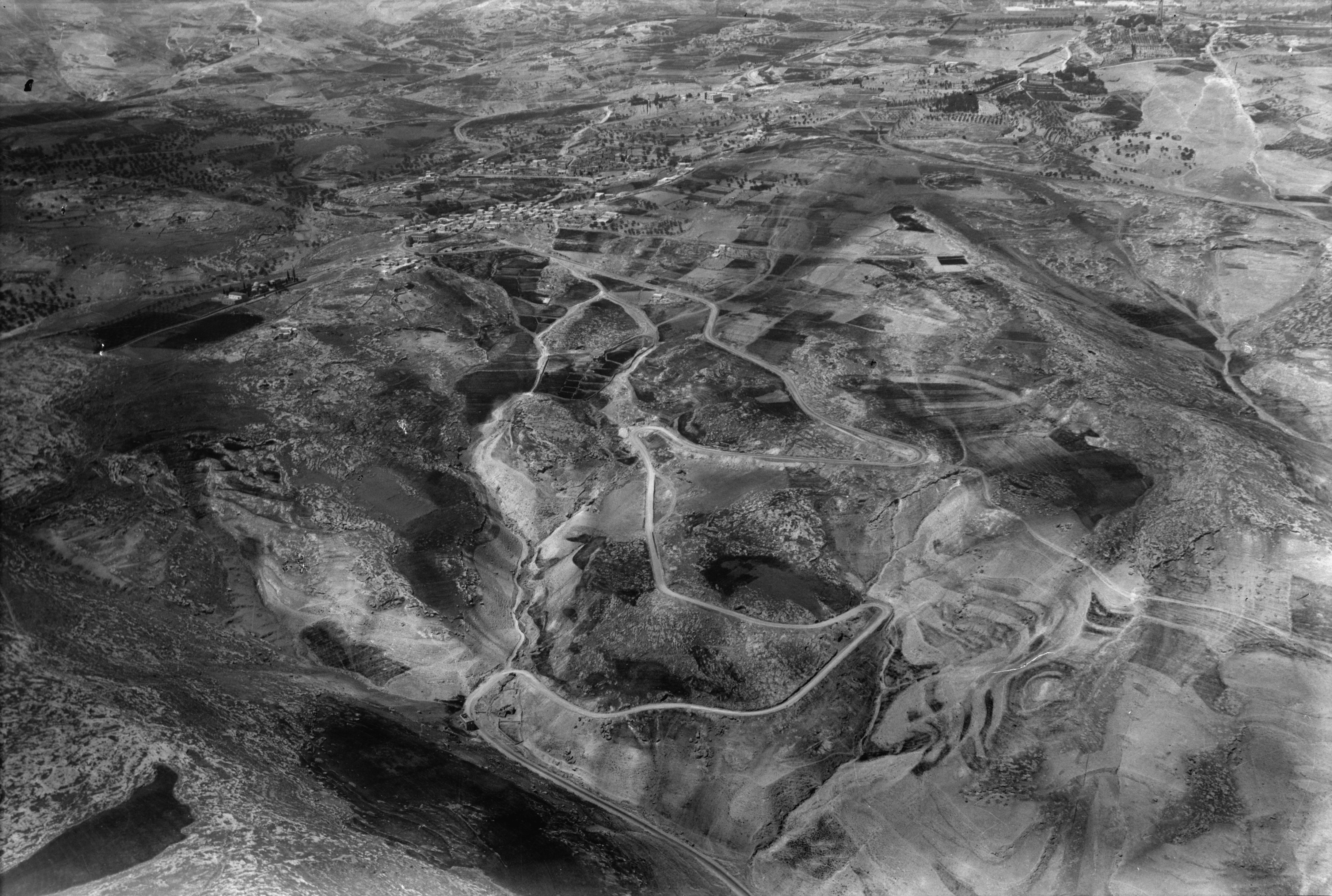 Title: Air views of Palestine. Air route following the old Jerusalem-Jericho Road. Road from Apostles' Fountain in Bethany. Showing hairpin bends on sleep ascent Abstract/medium: G. Eric and Edith Matson Photograph Collection Physical description: 1 negative